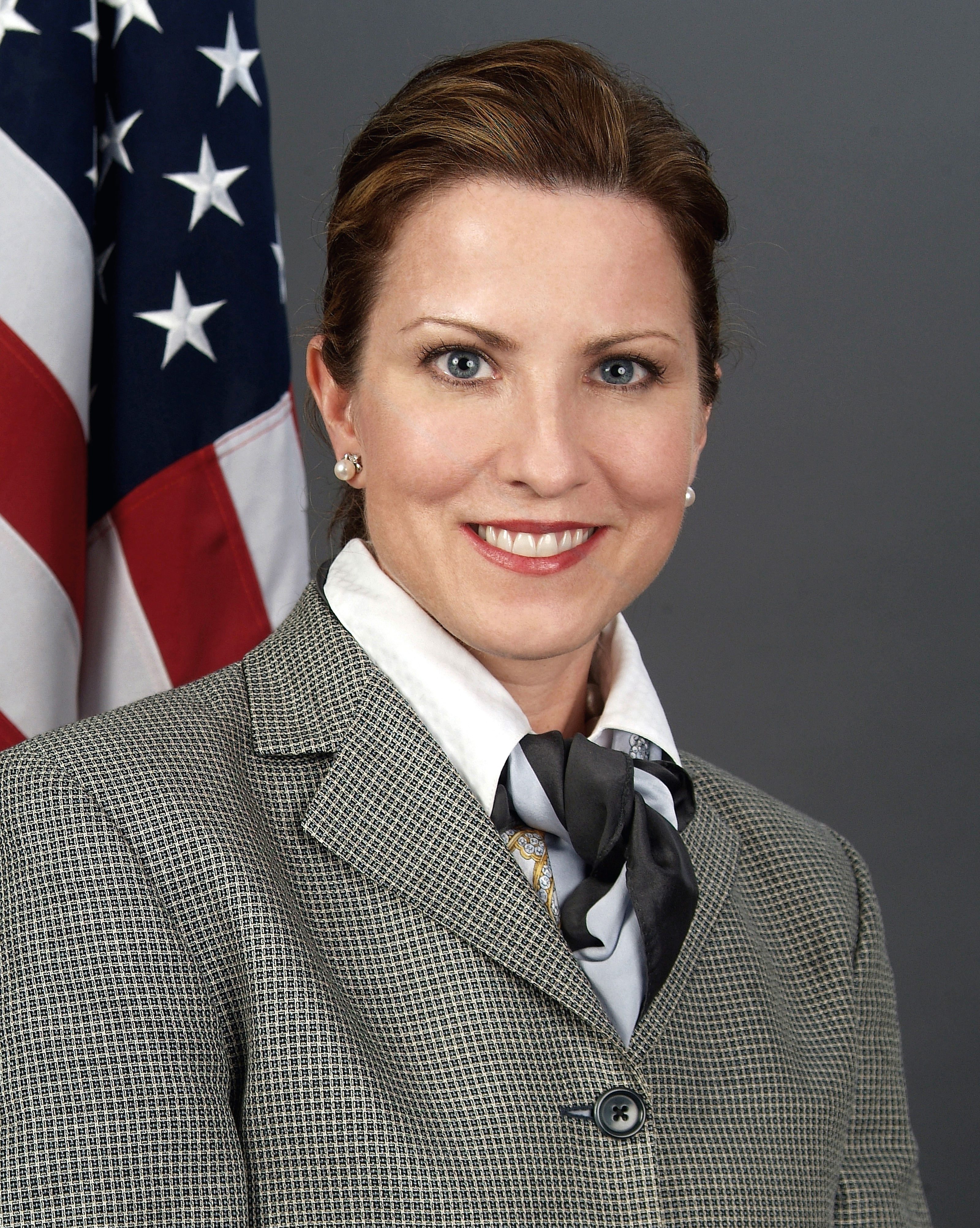 Official portrait of Securities and Exchange Commission (SEC) Commisioner .